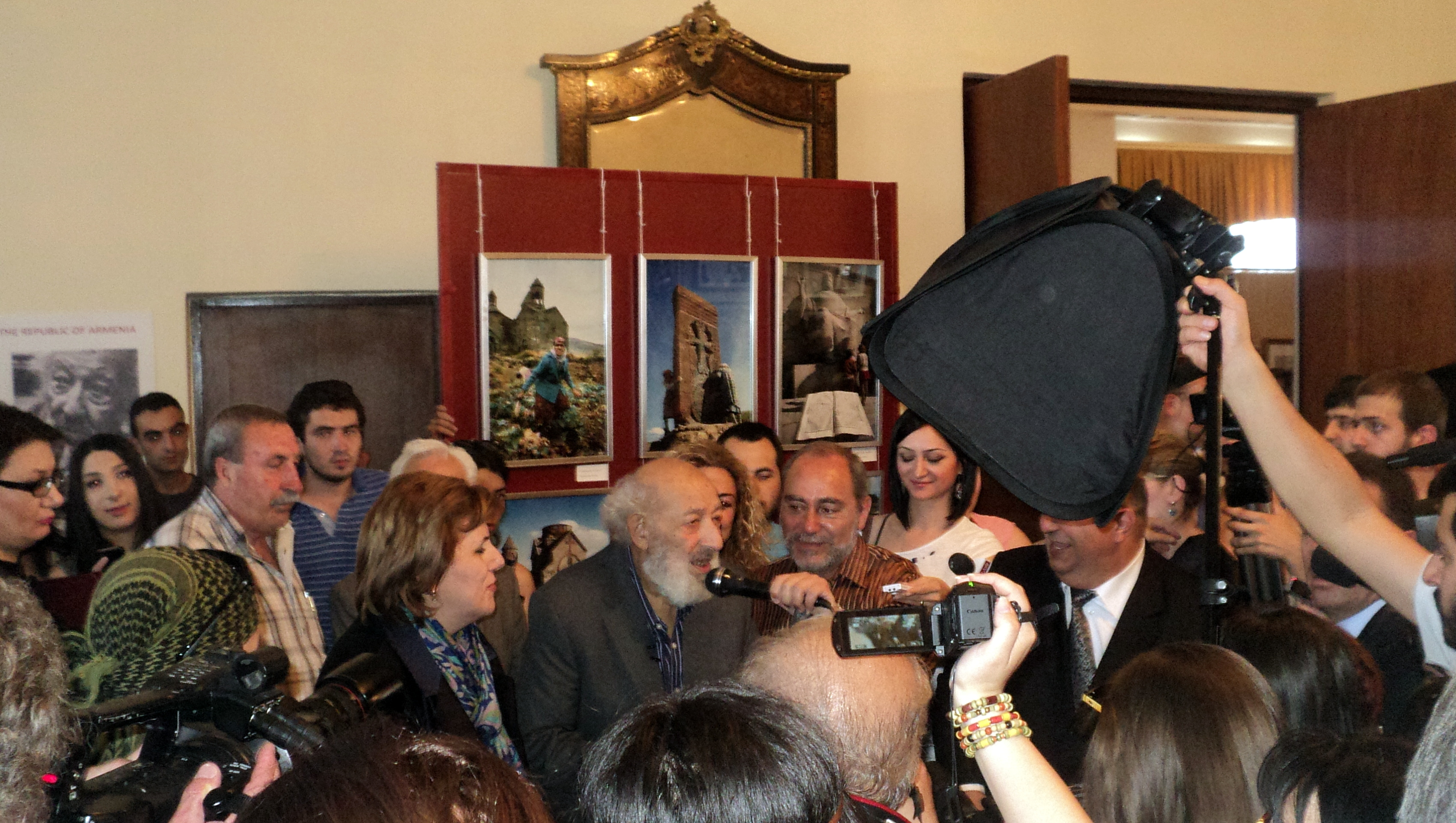 Ara Güler's exhibition under the slogan "Hello" at National Gallery of Armenia